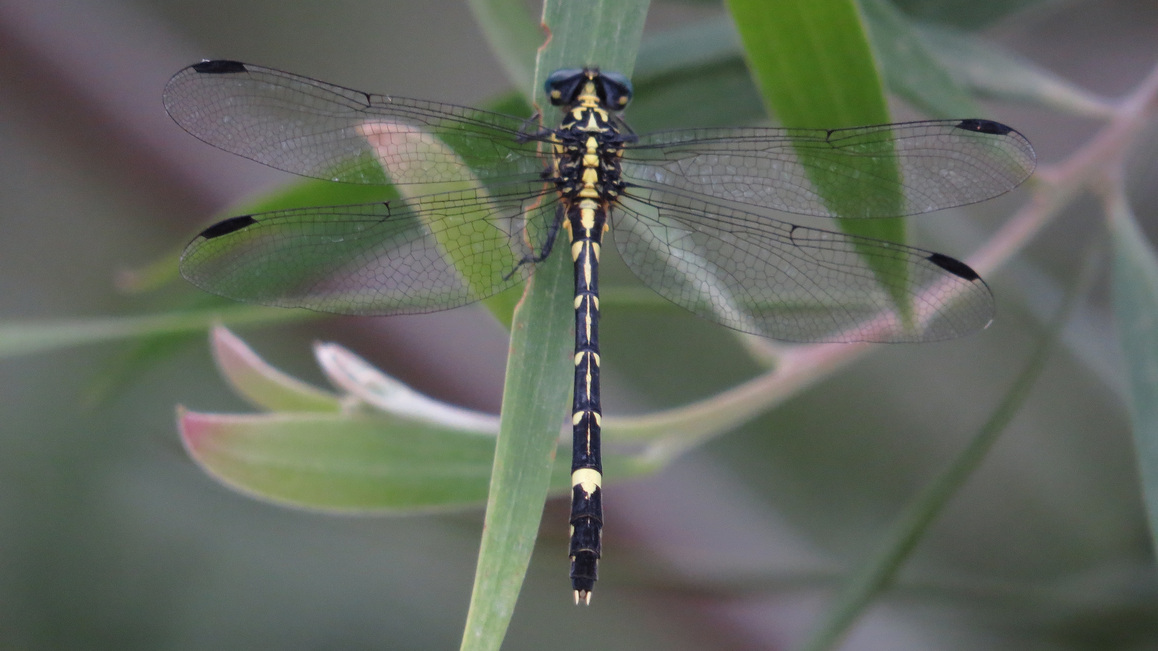 Female Pale Hunter, Austrogomphus amphiclitus. Koonyum Range, Mullumbimby, NSW, Australia, December 2014.